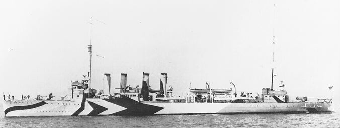 American Wickes class destroyer USS Fairfax (DD-93). Was transferred to Britain in 1940 and became HMS Richmond (G88).